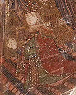 Elisabeth of Carinthia, Queen of Sicily